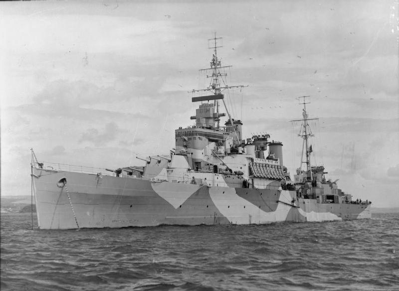 British light cruiser HMS CEYLON at anchor in the Clyde.